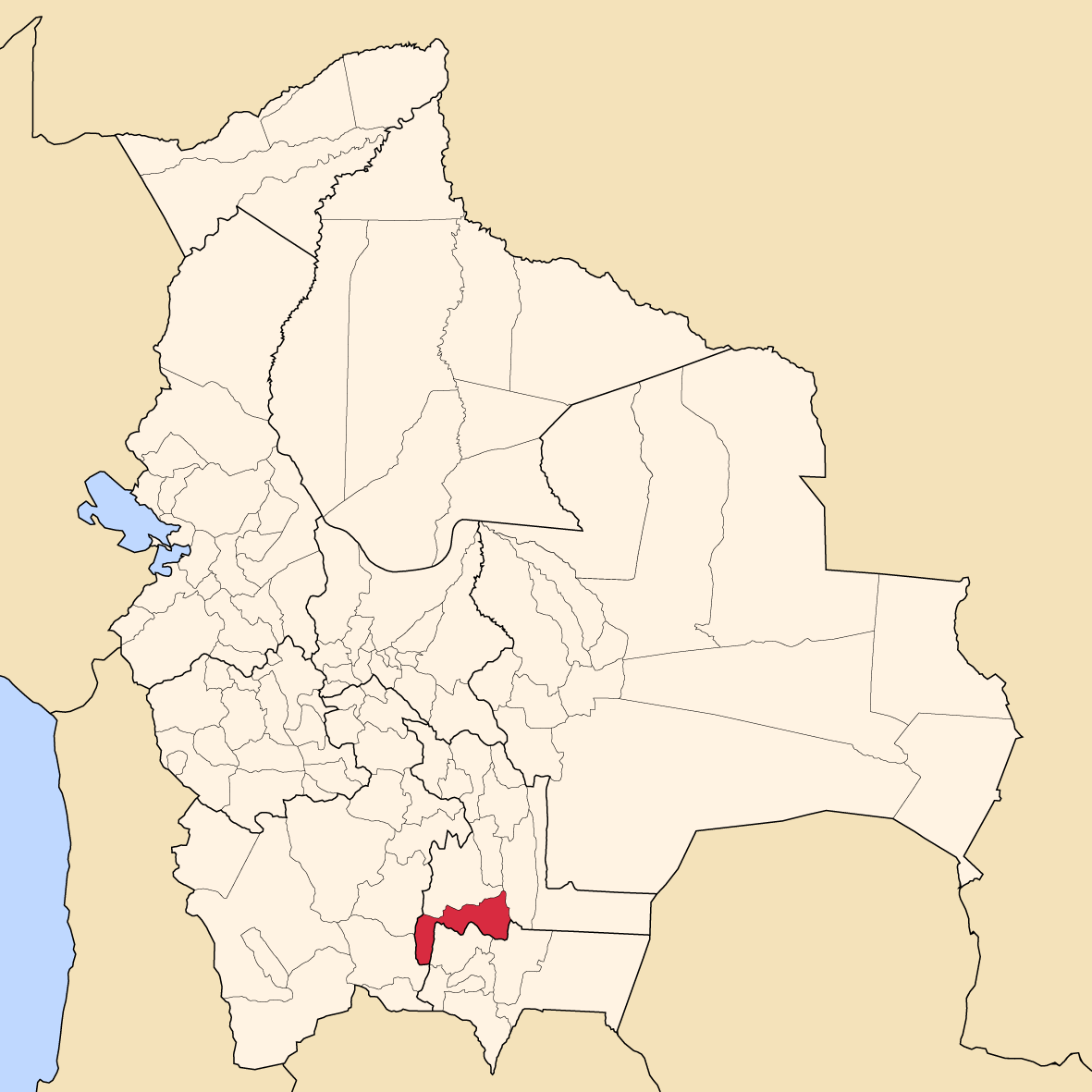 Map of Bolivia showing Sud Cinti province, Chuquisaca